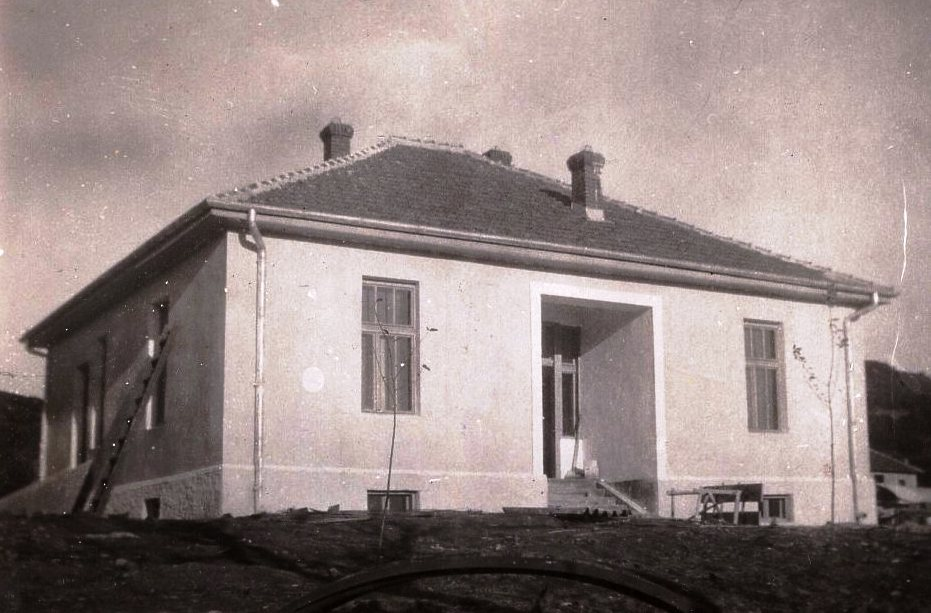 Police station in the village Udovo, 1931 This media file is produced by Wikipedian in Residence in Category:Wikipedian in Residence at DARM in 2016.